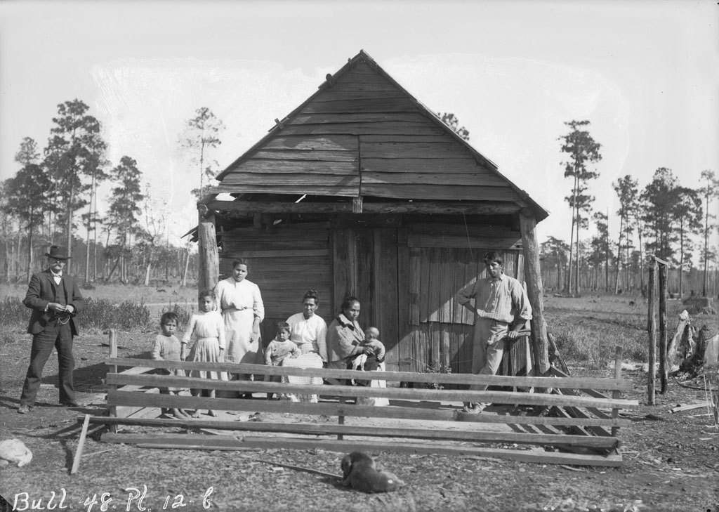 Group of Nine Near Wood Frame Building 1909, Photograph of Choctaws in Mississippi or Louisiana.